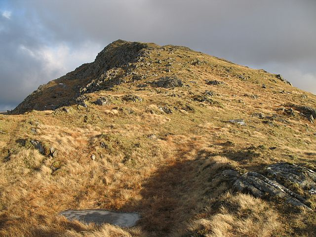 Buidhe Bheinn - East top Ridge leading up to the higher of the two tops. This is quite a broad ridge. To the south in narrows leading up to the west top.